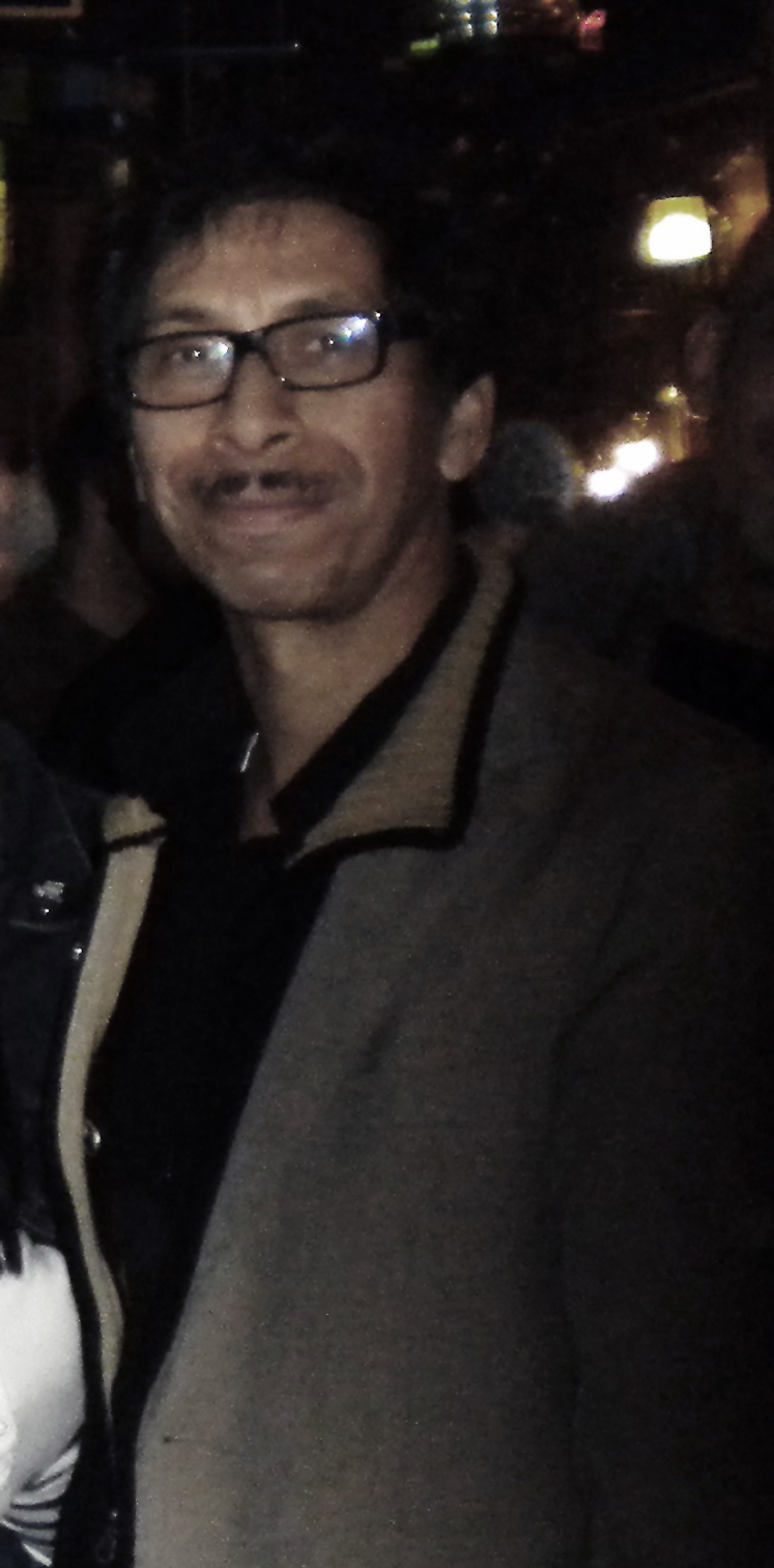 Kid Congo Powers after a live performance with the Pink Monkey Birds in Dijon, France, December 2009.